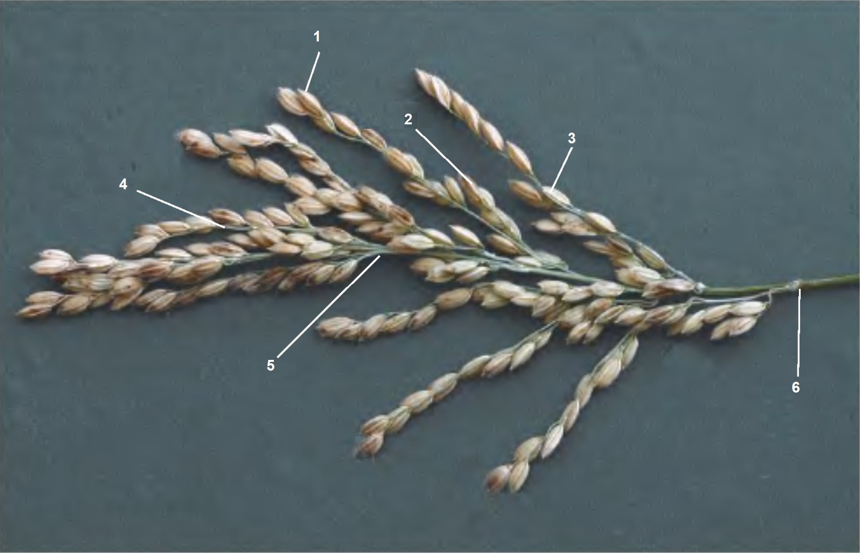 Parts of a Oryza panicle. 1-Spikelet, 2-Secondary branch, 3-Primary branch, 4-Peduncle, 5-Rachis, 6-Neck of the panicle.